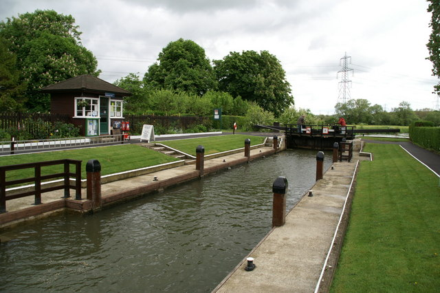 View downstream at Northmoor Lock on the River Thames in Oxfordshire